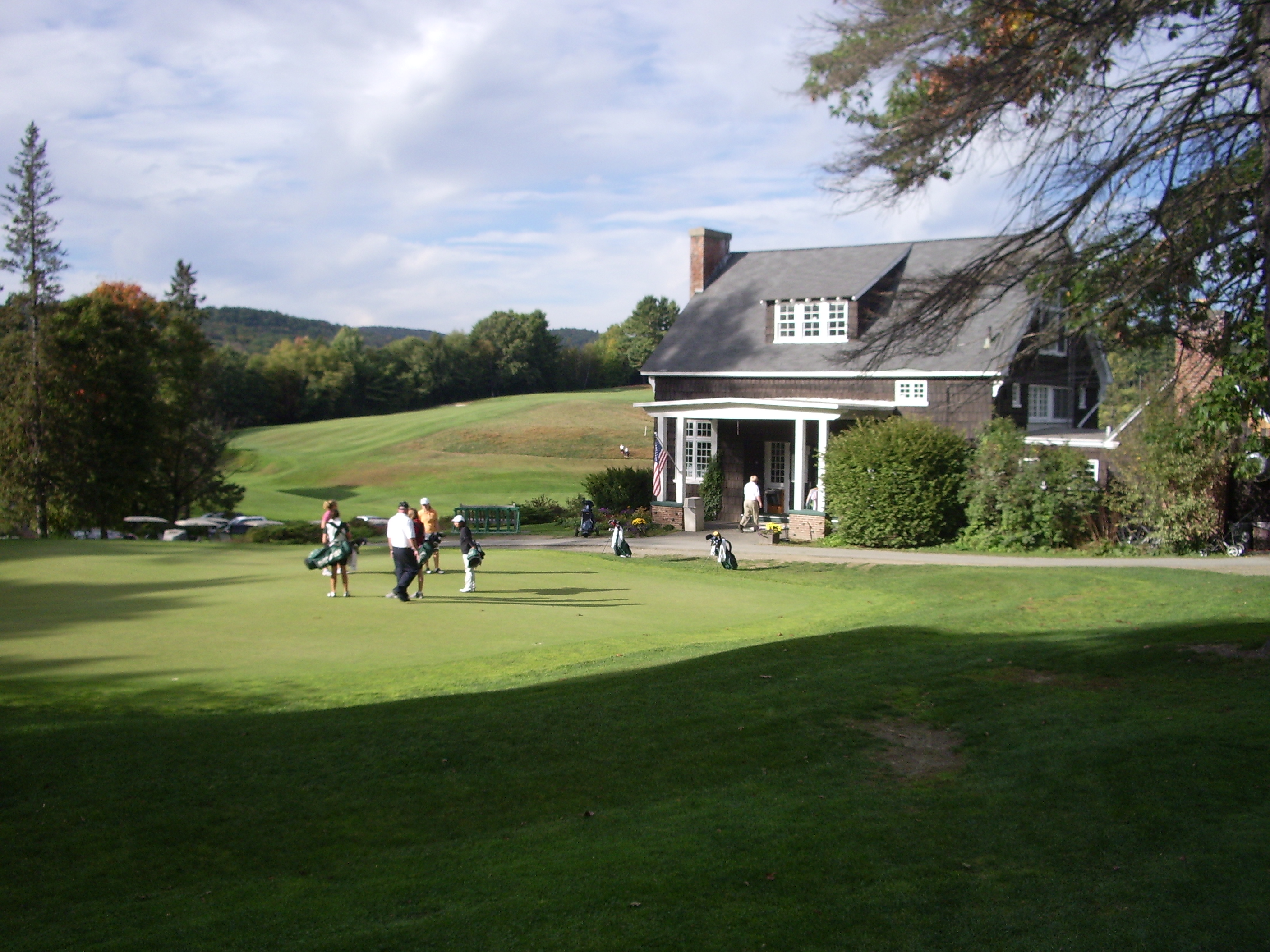 Photograph of the Hanover Country Club at the campus of Dartmouth College in Hanover, New Hampshire.